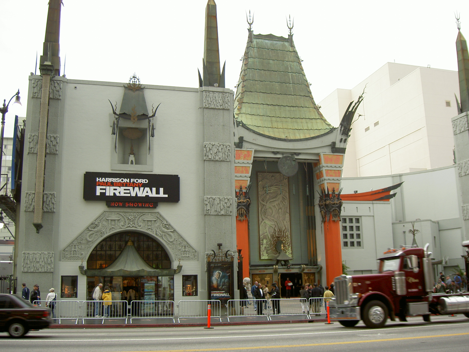 Grauman's Chinese Theatre, in Los Angeles, California.